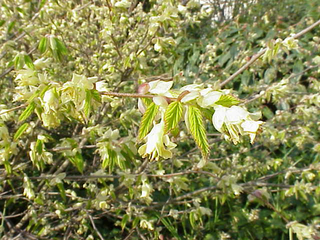 Species: Corylopsis pauciflora Family: Hamamelidaceae Image No. 1